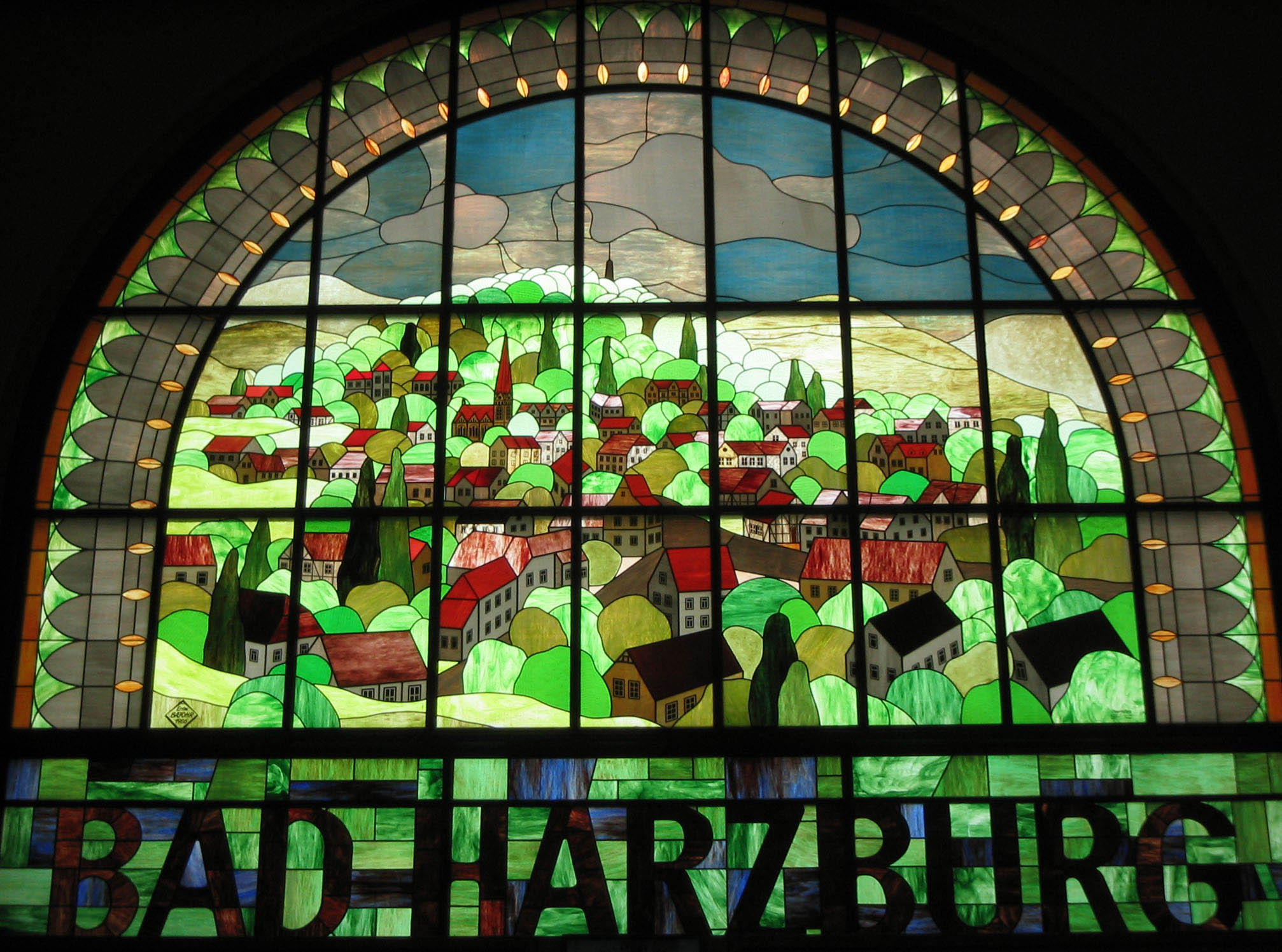 Window of station entrance hall in Bad Harzburg, Harz mountains, Northern Germany